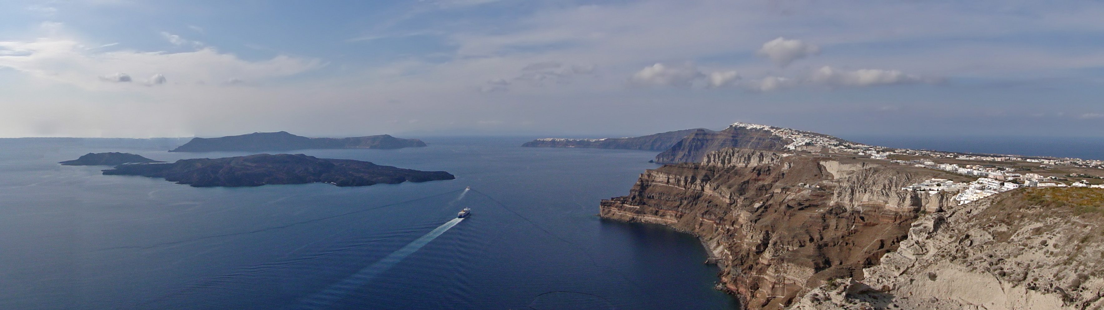 View of the Santorini caldera with the islands of Nea Kameni, Palea Kameni, Therasia and Santorini. Located in Greece